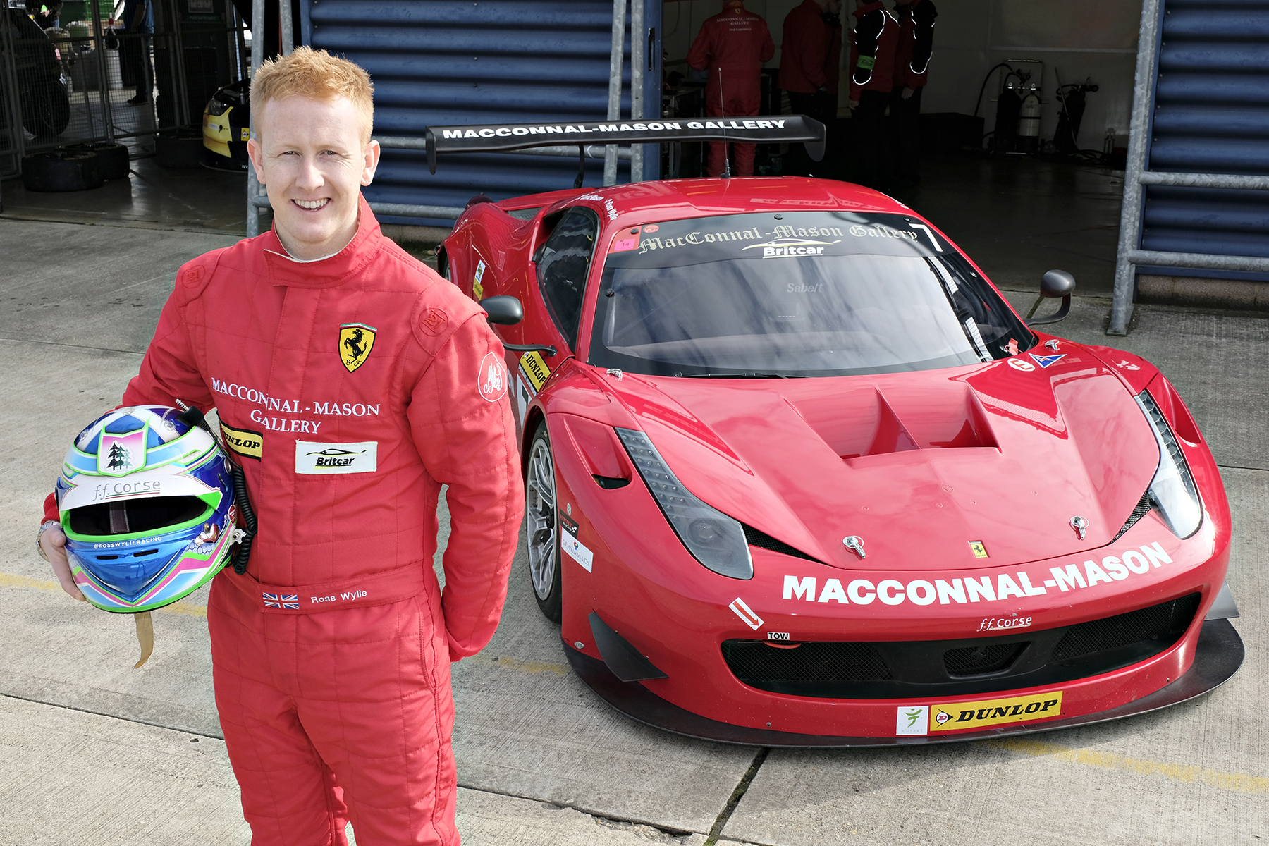 DUNLOP BRIT CAR ENDURANCE CHAMPIONSHIP ROUND 1 ROCKINGHAM PIC SHOWS ROSS WYLIE/FF CORSE/FERRARI 458 GT3